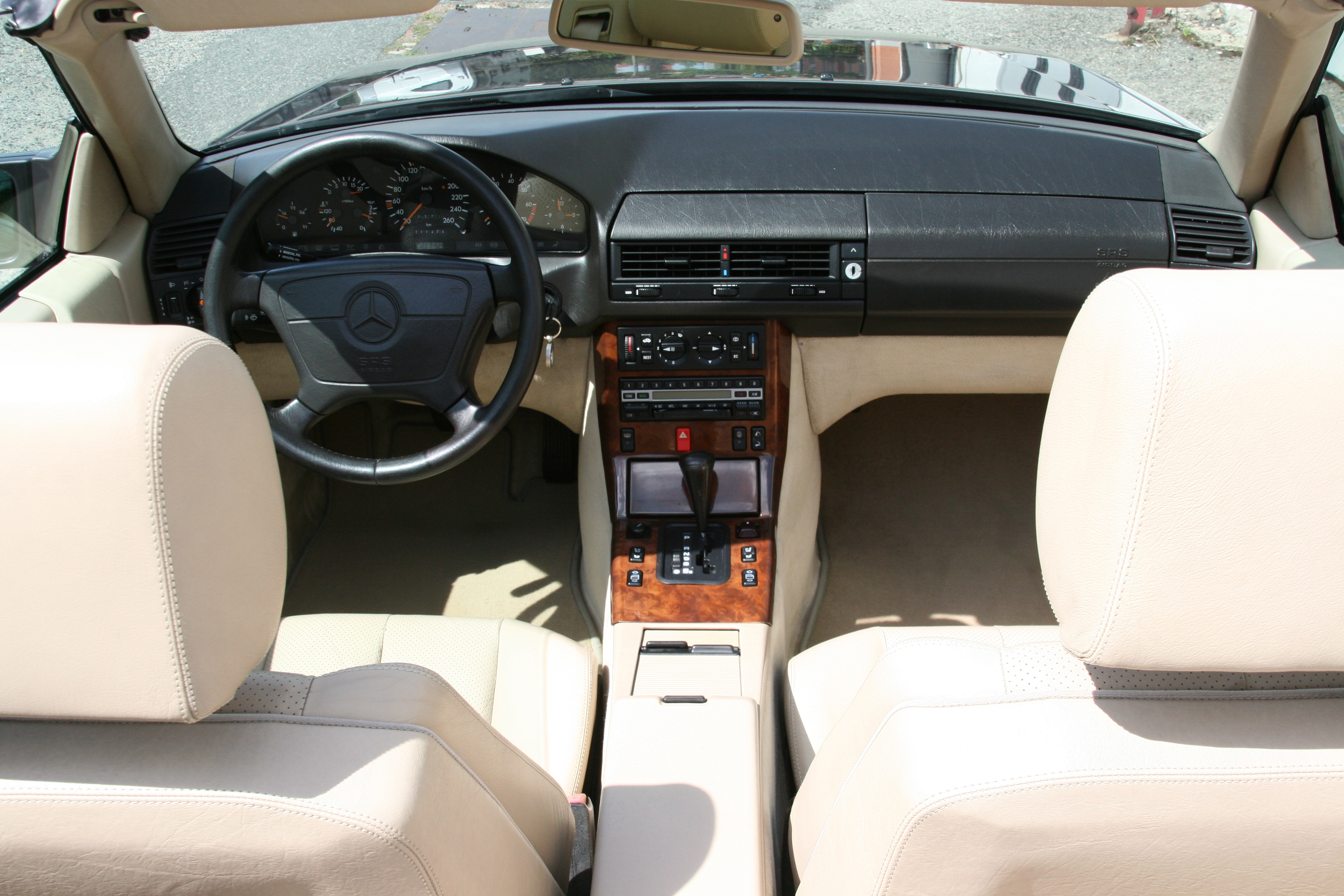 1993 Mercedes Benz 500SL Cockpit